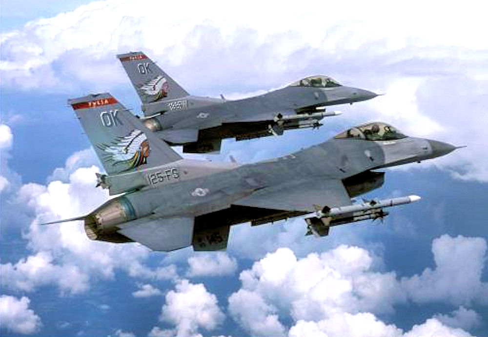 Oklahoma ANG F-16C block 42, #89-2138 and #89-2145 in the clouds [USAF photo]